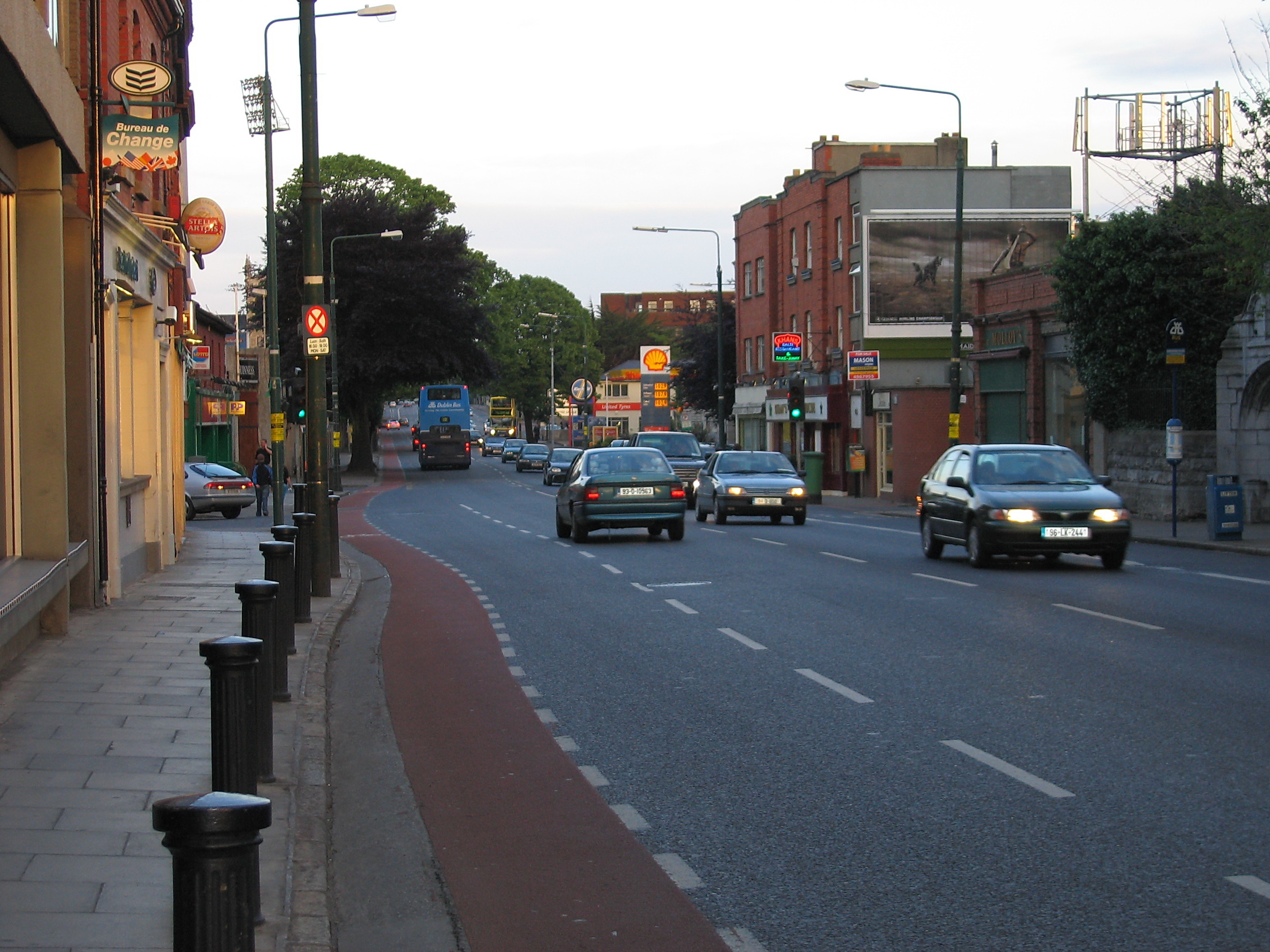 Donnybrook, Dublin 4